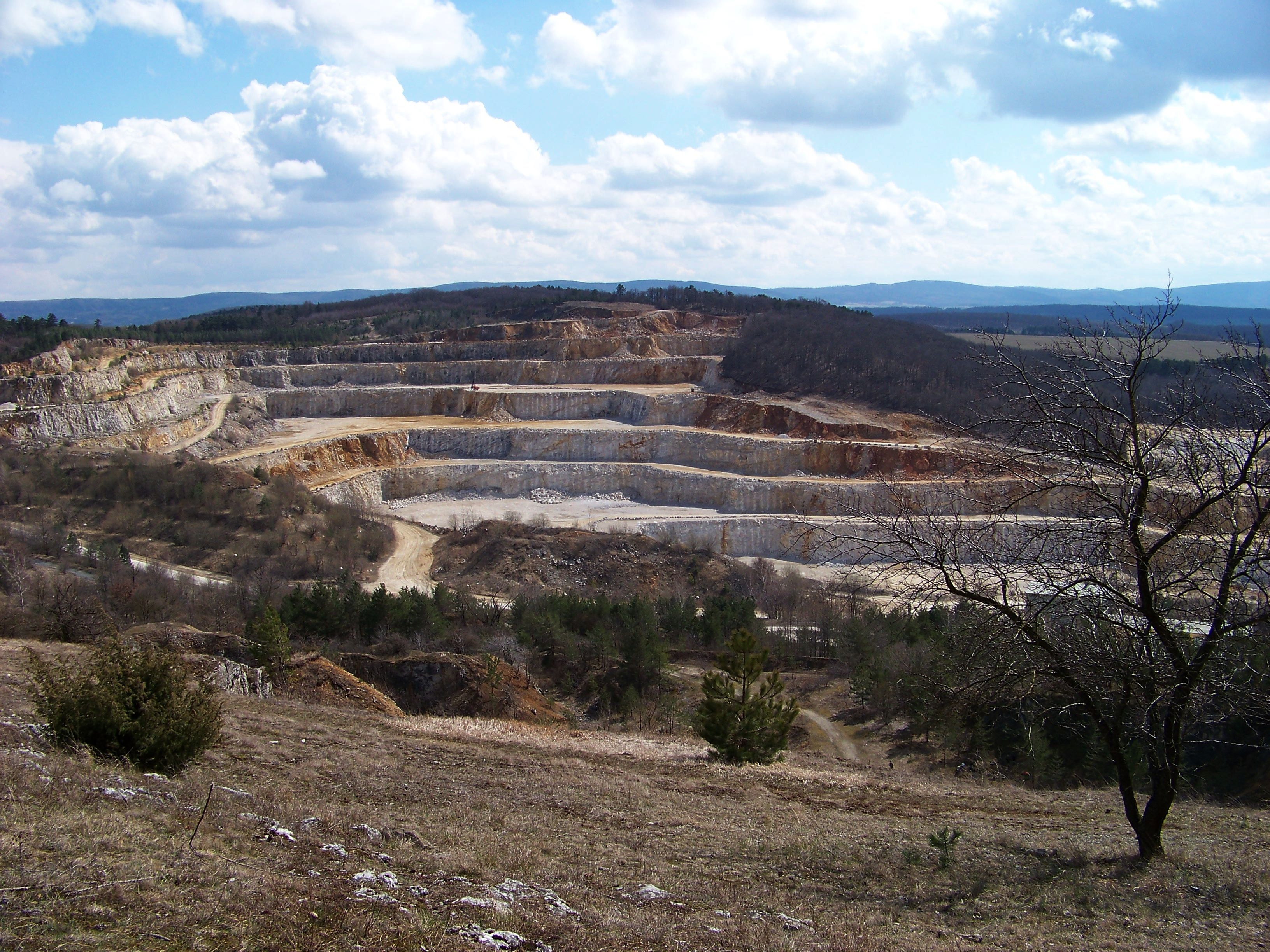 Koněprusy, Beroun District, Central Bohemian Region, the Czech Republic. Čertovy schody quarry. - OpenStreetMap(Info)